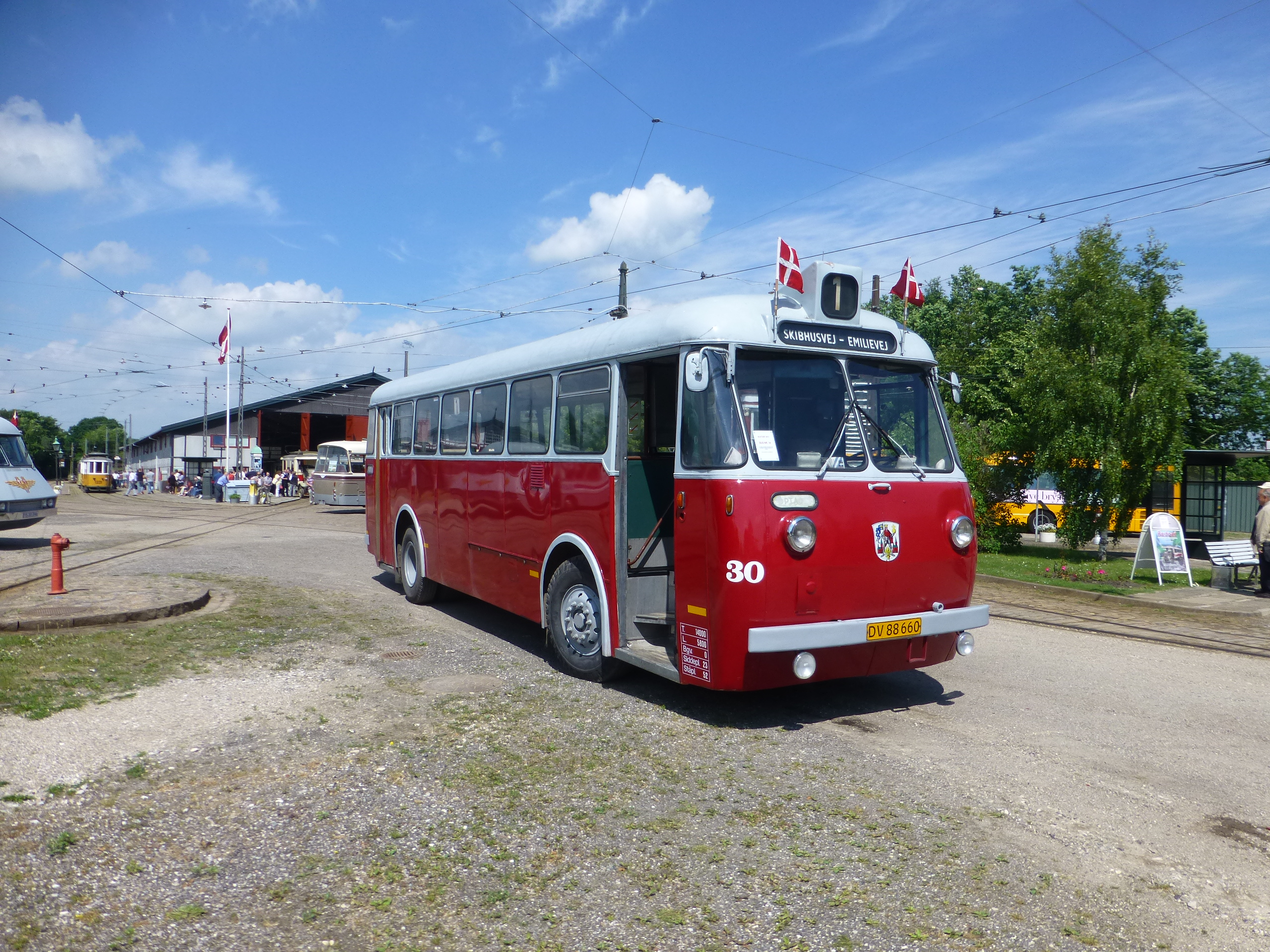 Old bus from Odense OB 30 at the celebrating of 100 years of motor buses in Copenhagen on Sporvejsmuseet Skjoldenæsholm in Denmark.